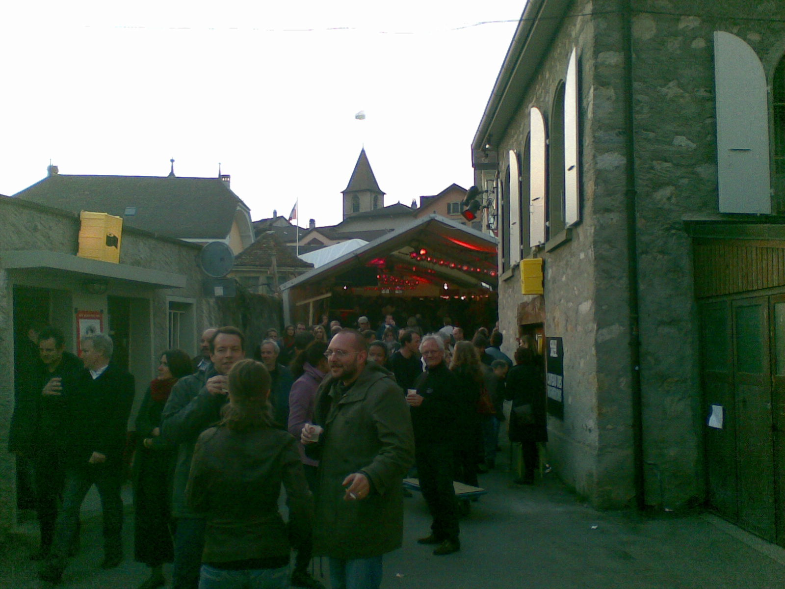 Cully, Vaud, Switzerland